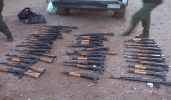 Weapons from the Phoenix ATF Operation Fast and Furious that were interdicted 20 Feb 2010 by Border Patrol agents and Tuscon ATF agents from a vehicle that was headed toward the Mexican Border within the Tohono O'odham Indian Reservation in Arizona.